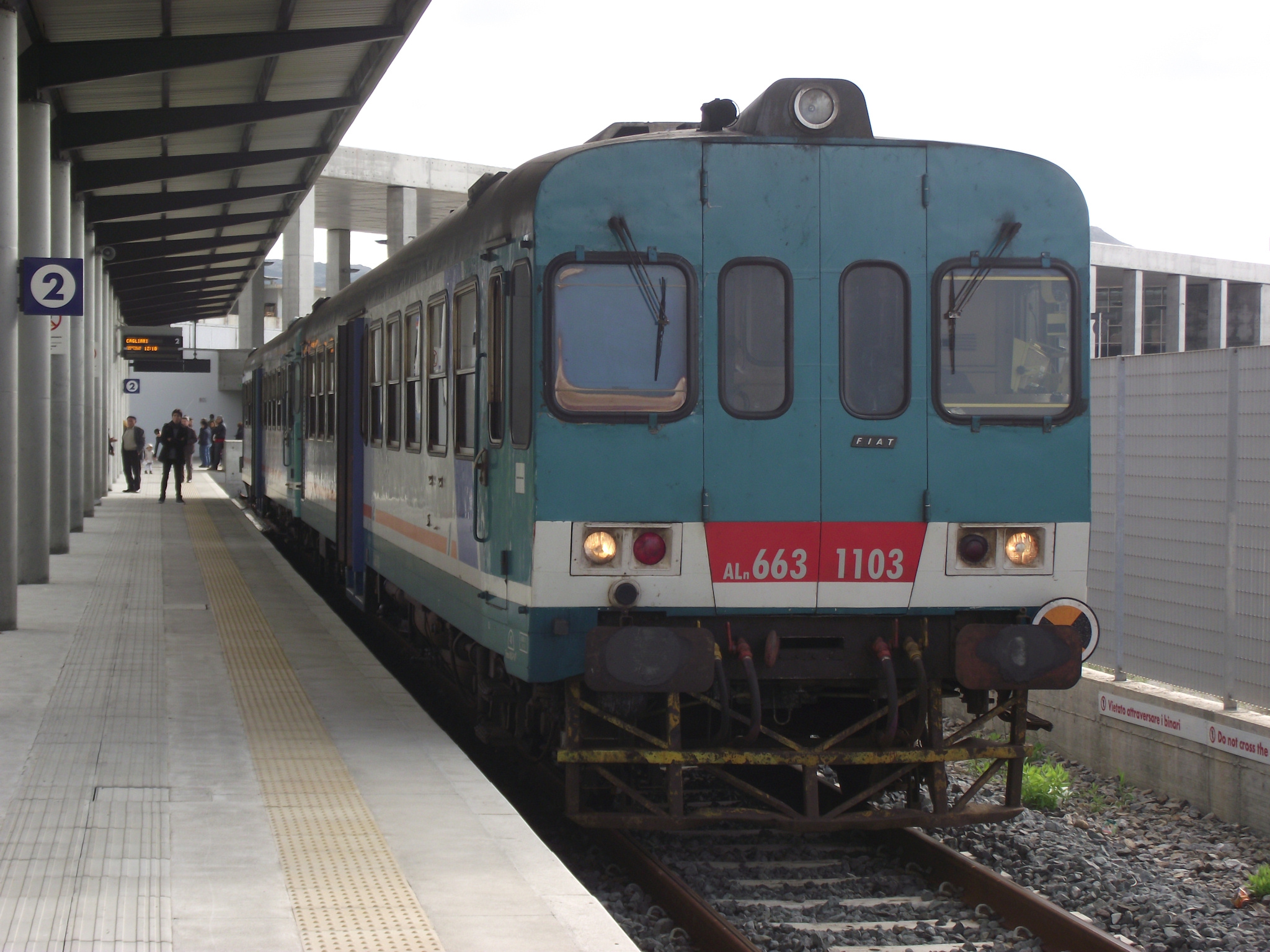 Trenitalia railcar ALn 663 1103 inside the Carbonia Serbariu station in Carbonia, Sardinia, Italy